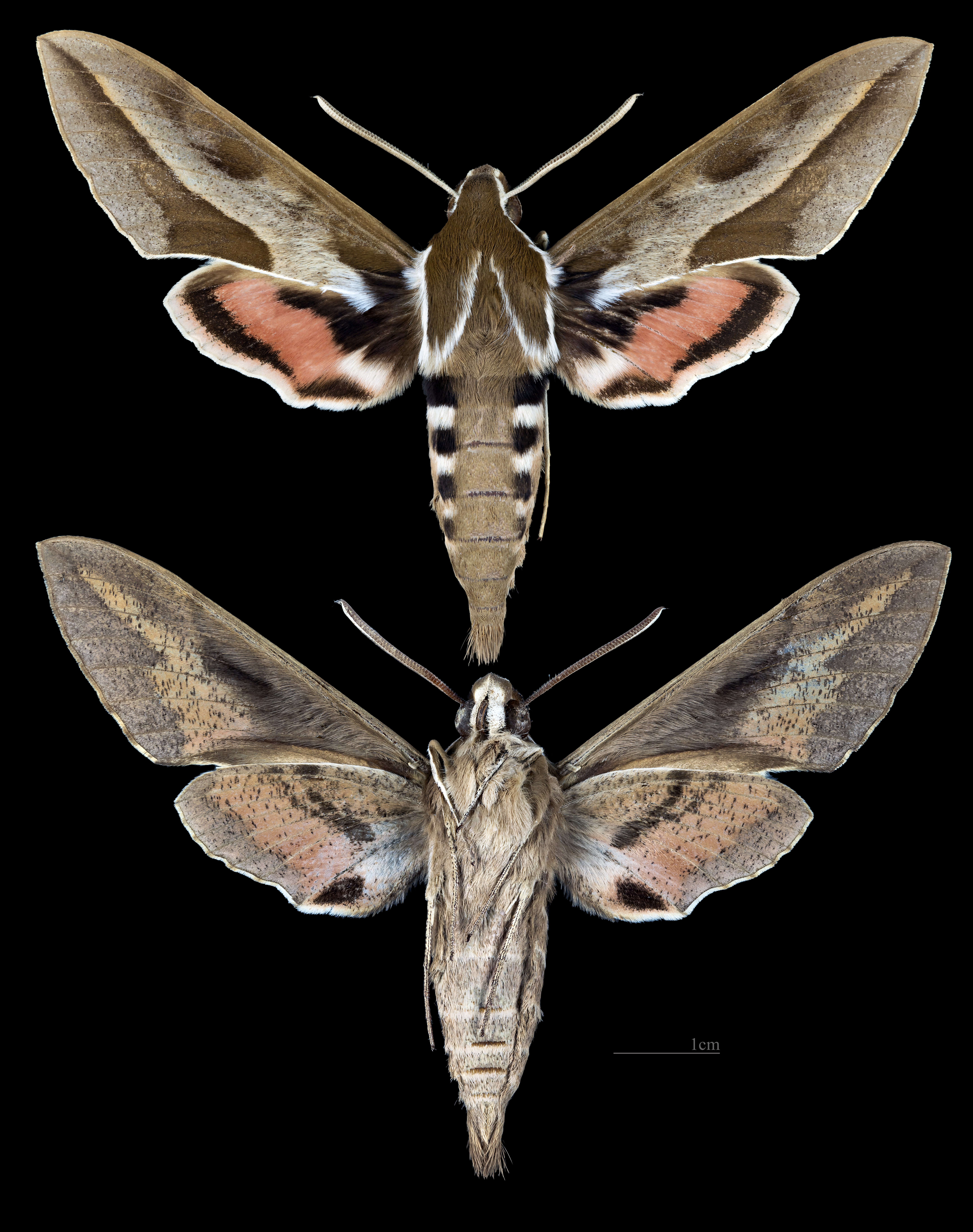 Hyles annei - Two views of same specimen Collection of the Mathematician Laurent Schwartz